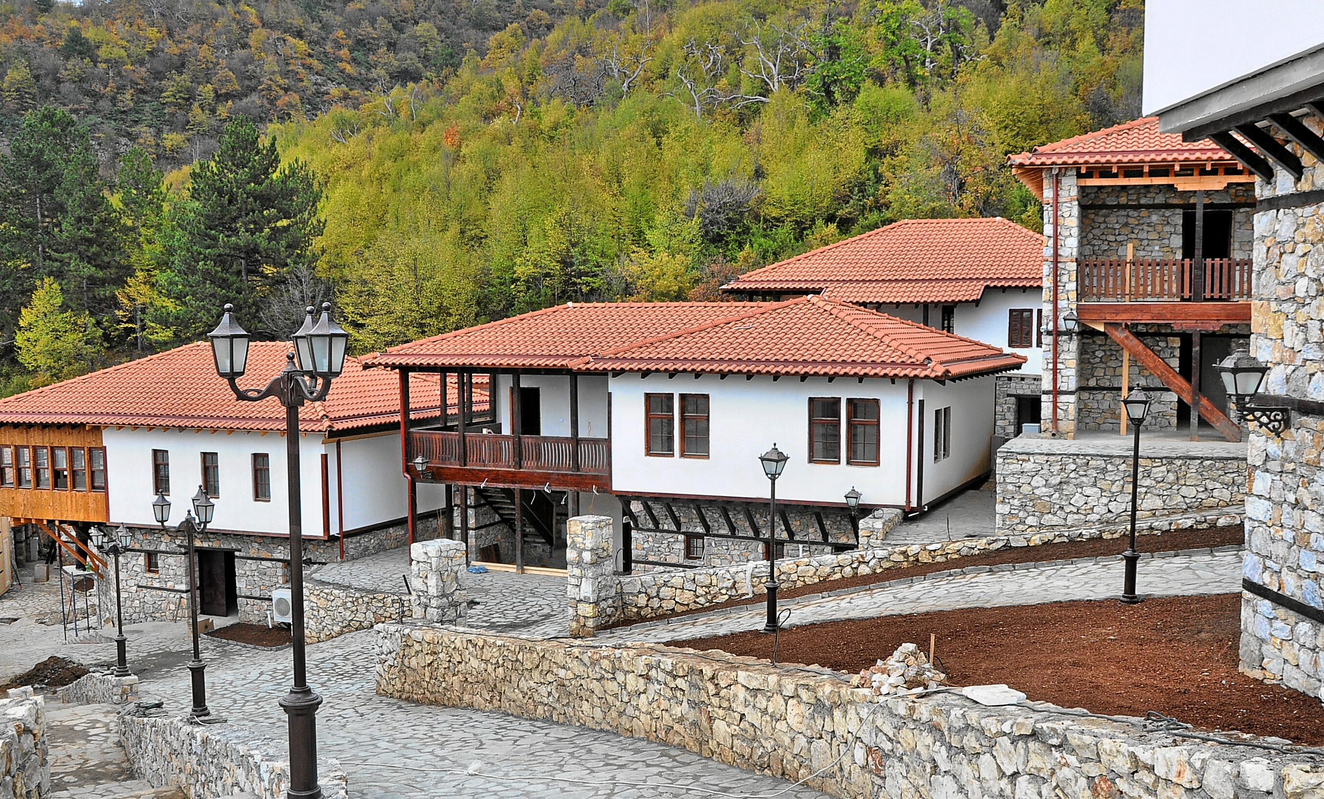 Ethno Village in Gorno Nerezi near Skopje, Macedonia This image is uploaded as part of the picture contest Wiki Loves Cultural Heritage in Macedonia 2013. English | македонски | +/−